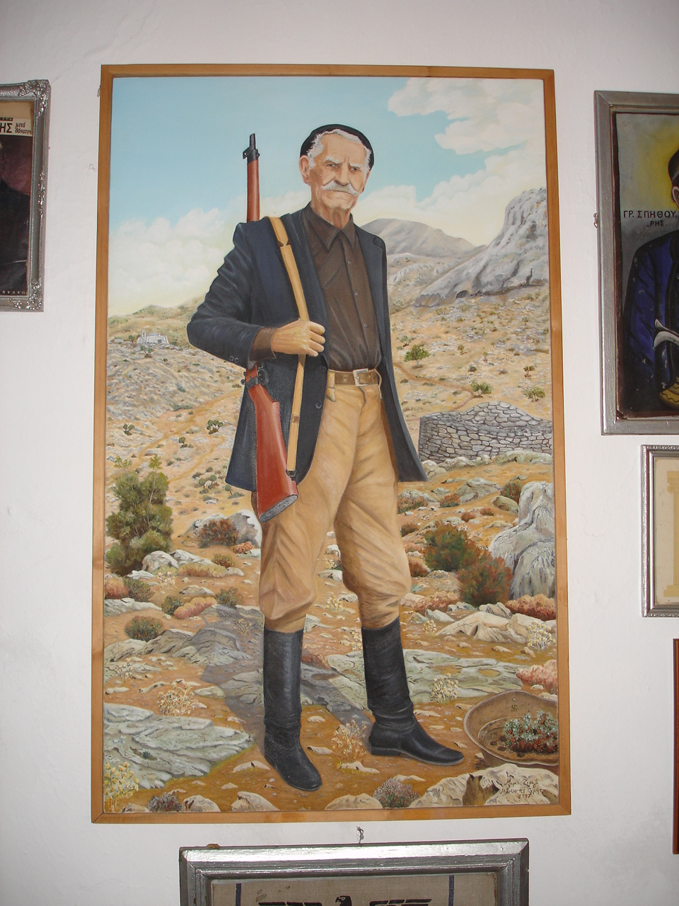 Spithouris Manolis - fought at Damasta